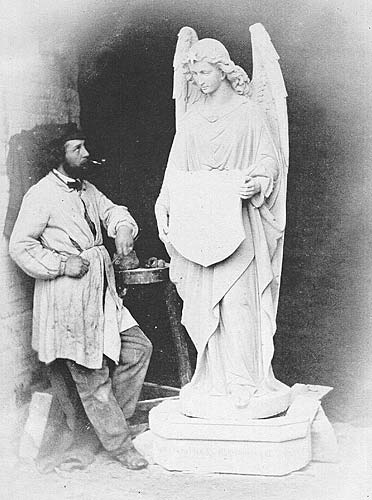 Samuel Peploe Wood in his studio, c.1860. Staffordshire County Museum ref. G91.075.0001 Other information Original photographic print in collections of Staffordshire County Museum